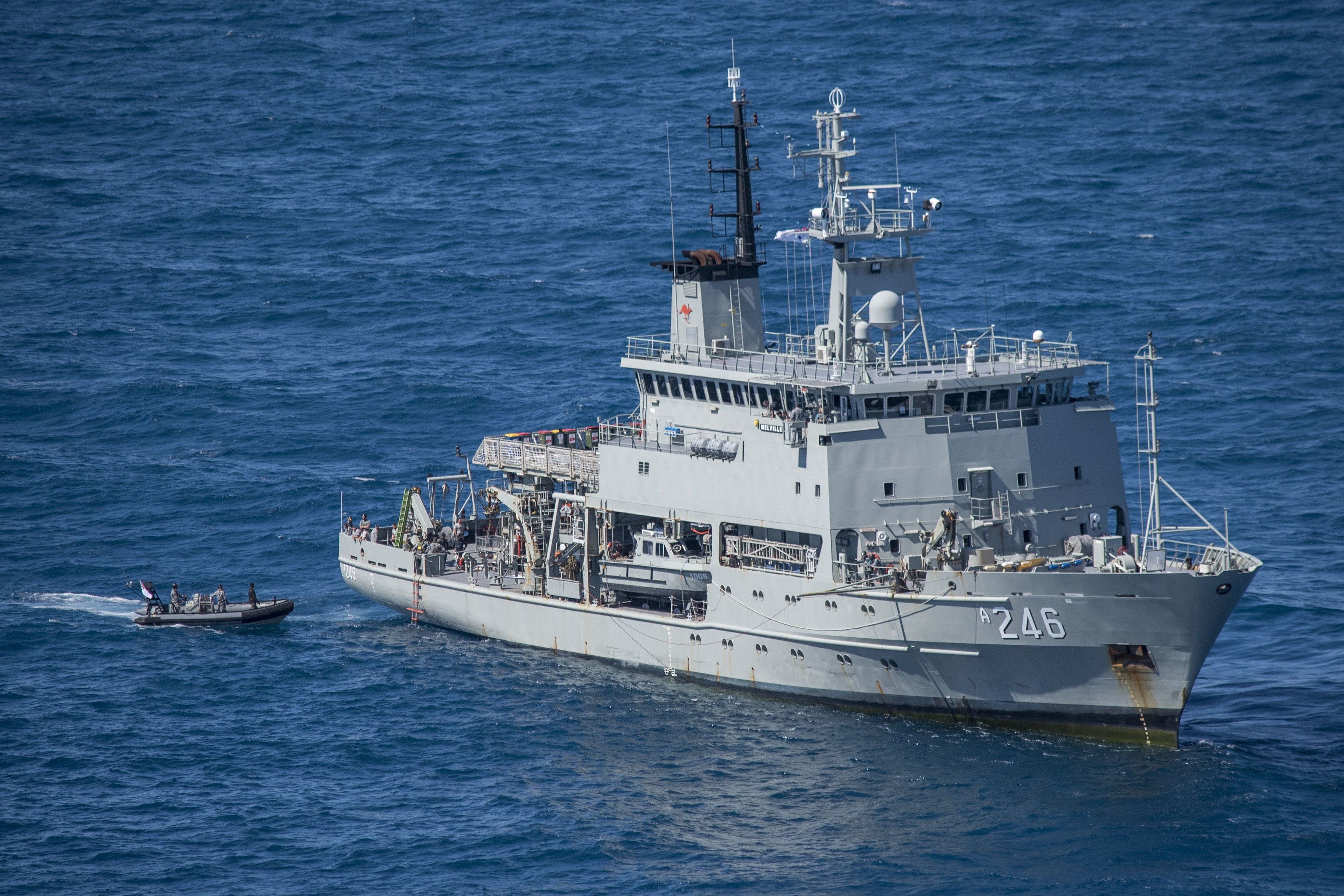 170807-N-YG104-005 CORAL SEA (August 8, 2017) Royal Australian Navy Clearance Diving Team One (CDT1) embark a rigid-hull inflatable boat (RHIB) near Royal Australian Navy ship HMAS Melville as they prepare to support recovery operations connected to the MV-22 Osprey mishap that occurred Aug. 5. CDT1 will conduct a series of dives to retrieve information about the incident, search for remains, and assist in the future salvage of the MV-22. (U.S. Navy photo by Mass Communication Specialist 2nd Class Sarah Villegas/Released)